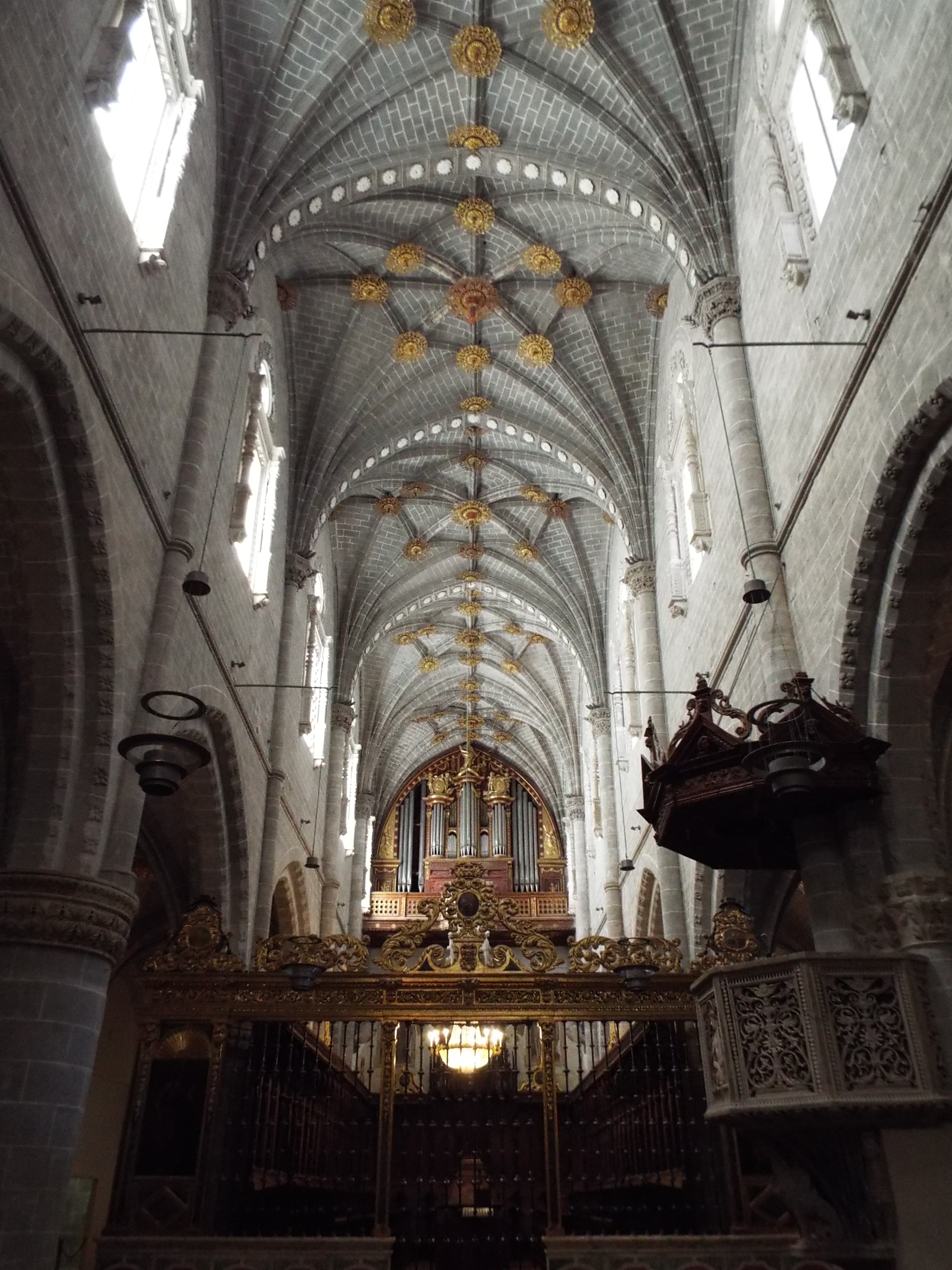 Choir of the Tarazona Cathedral, Spain